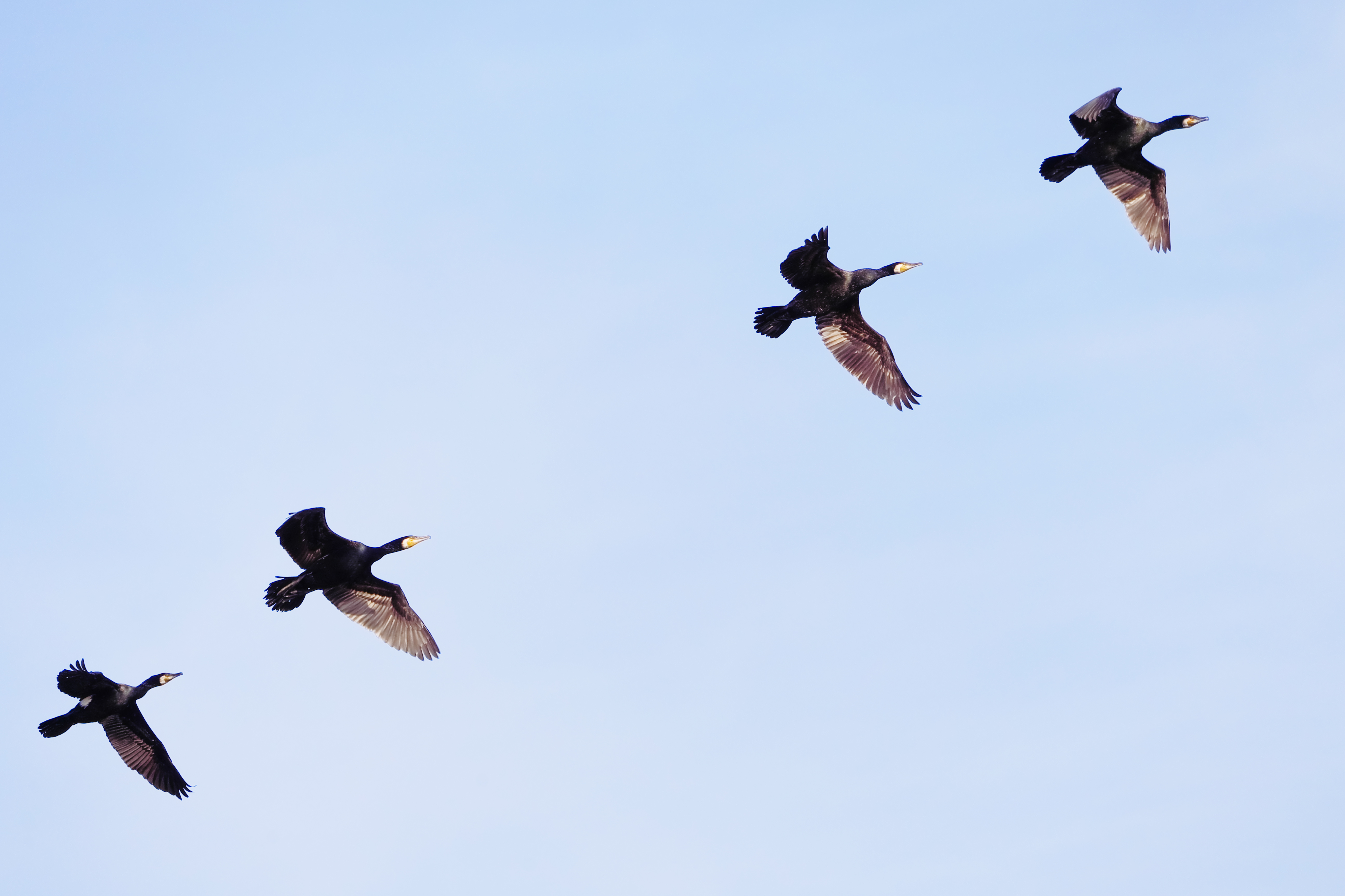 Kormoran-Formation am Krughorn im Europäischen Vogelschutzgebiet Westlicher Forst Düppel in Berlin